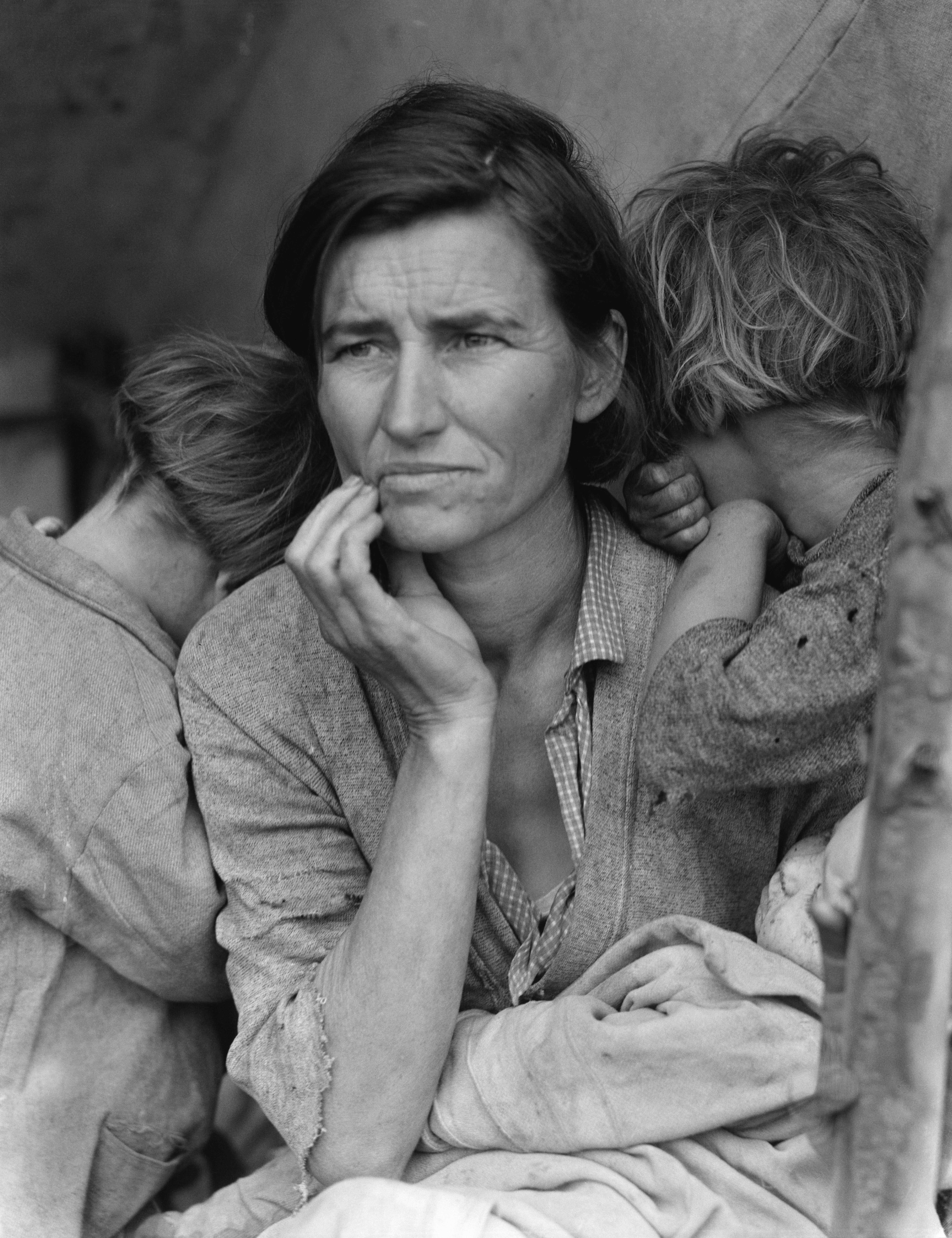 Portrait shows Florence Thompson with several of her children in a photograph known as "Migrant Mother". The Library of Congress caption reads: "Destitute pea pickers in California. Mother of seven children. Age thirty-two. Nipomo, California." In the 1930s, the FSA employed several photographers to document the effects of the Great Depression on the population of America. Many of the photographs can also be seen as propaganda images to support the U.S. government's policy distributing support to the worst affected, poorer areas of the country. Lange's image of a supposed migrant pea picker, Florence Owens Thompson, and her family has become an icon of resilience in the face of adversity. However, it is not universally accepted that Florence Thompson was a migrant pea picker. In the book Photographing Farmworkers in California (Stanford University Press, 2004), author Richard Steven Street asserts that some scholars believe Lange's description of the print was "either vague or demonstrably inaccurate" and that Thompson was not a farmworker, but a Dust Bowl migrant. Nevertheless, if she was a "Dust Bowl migrant", she would have left a farm as most potential Dust Bowl migrants typically did and then began her life as such. Thus any potential inaccuracy is virtually irrelevant. The child to the viewer's right was Thompson's daughter, Katherine (later Katherine McIntosh), 4 years old (Leonard, Tom, "Woman whose plight defined Great Depression warns tragedy will happen again ", article, The Daily Telegraph, December 4, 2008) Lange took this photograph with a Graflex camera on large format (4"x5") negative film.[1]